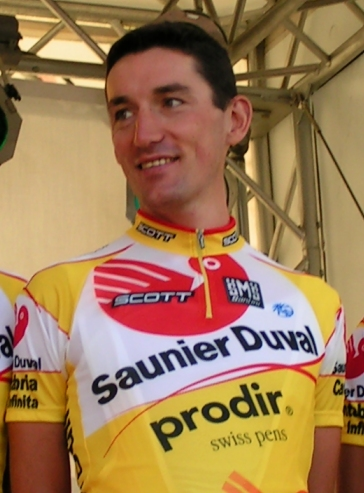 The Italian racing cyclist Marco Pinotti at the team presentation for the Deutschland Tour 2006 in Düsseldorf, Germany.